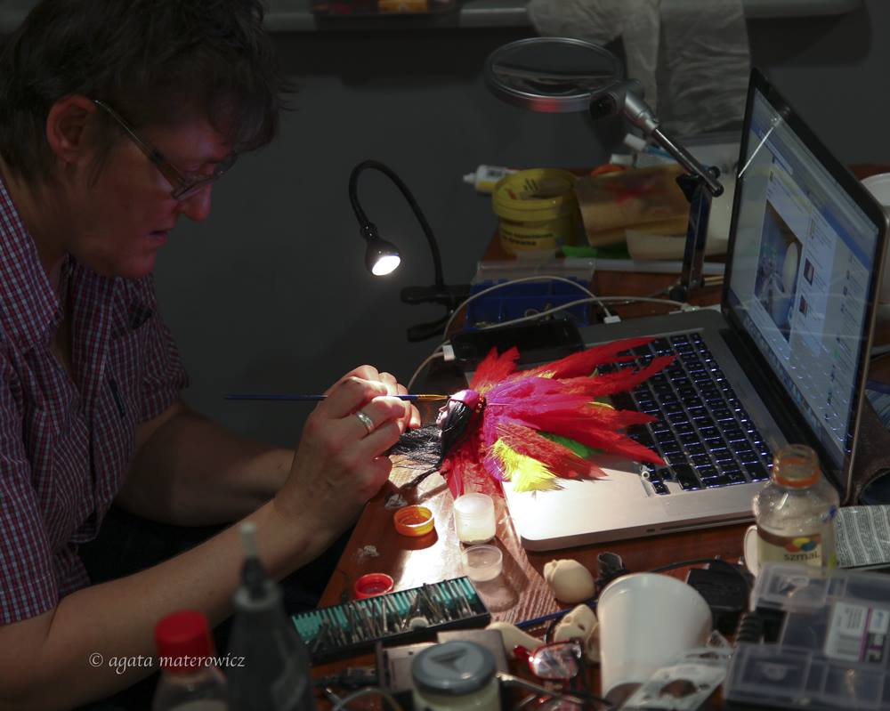 Agata Materowicz, Lodz, Poland, Pioropusz, video, Natalia Kukulska, Daria Solar, Animator Doll, hand made